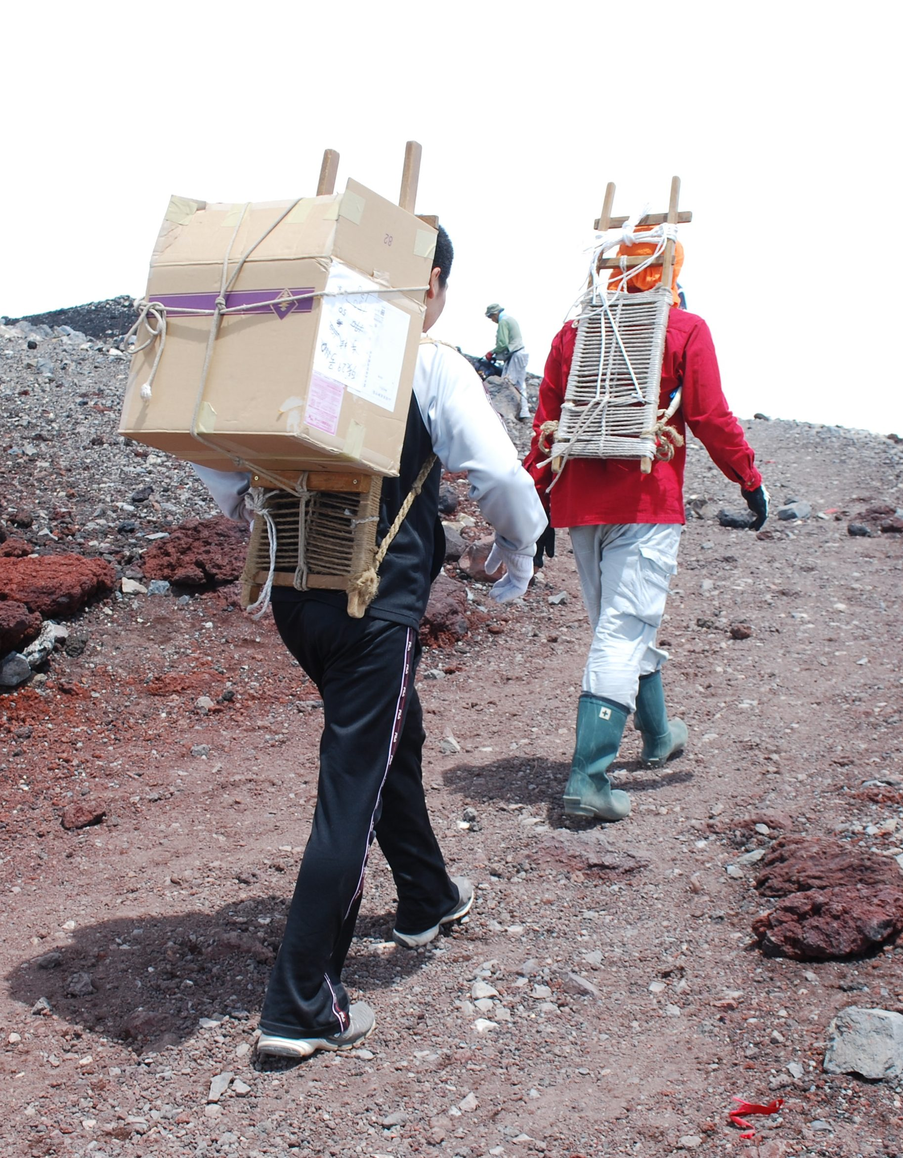 "Shoiko" porters with external frame packs on Mt Fuji in Japan